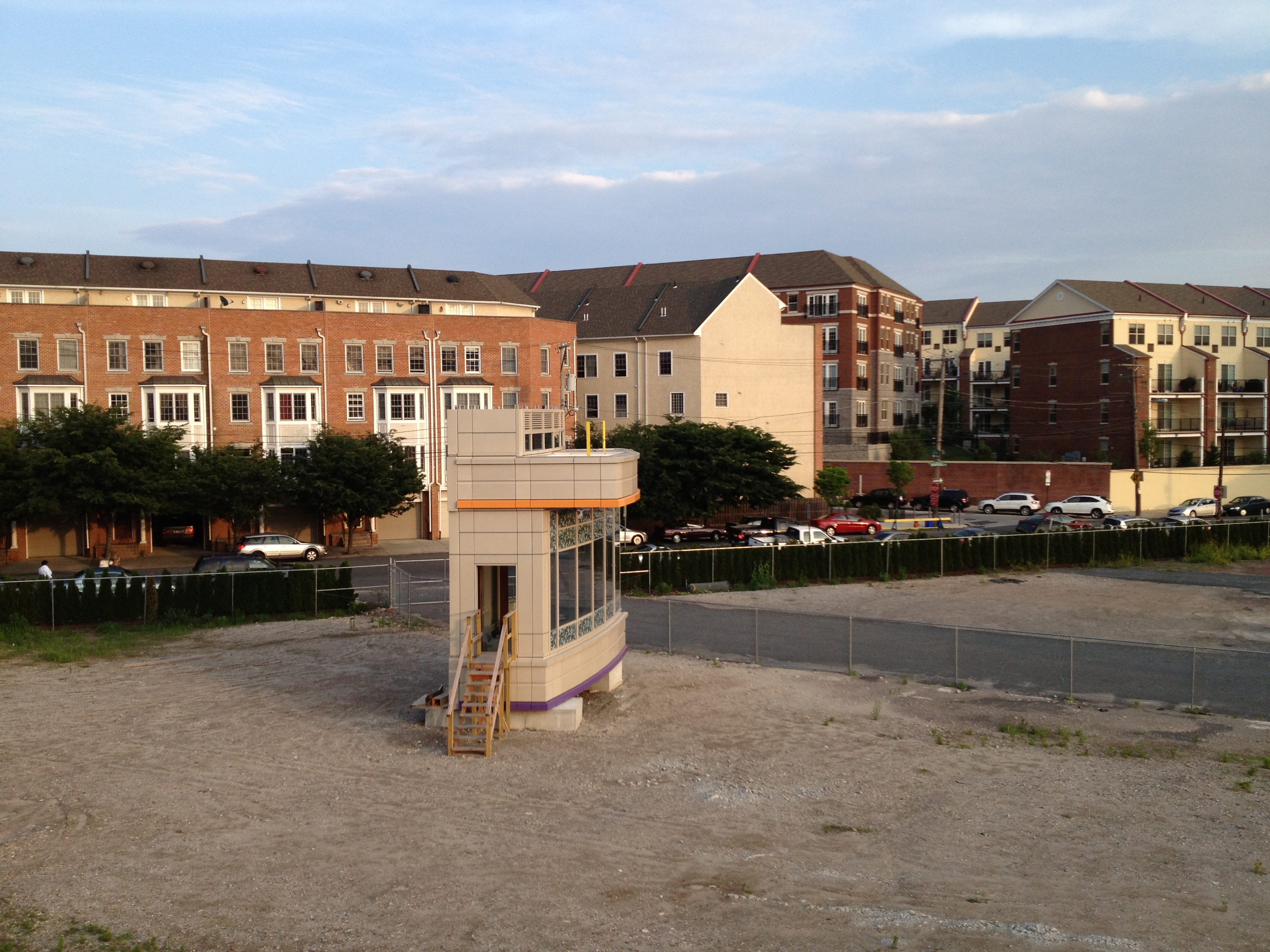 CHOP prototype room